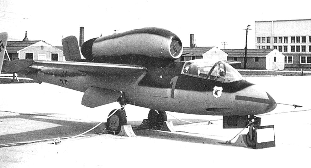 Heinkel HS-162 captured from Germany at Freeman Field, Indiana, 1945